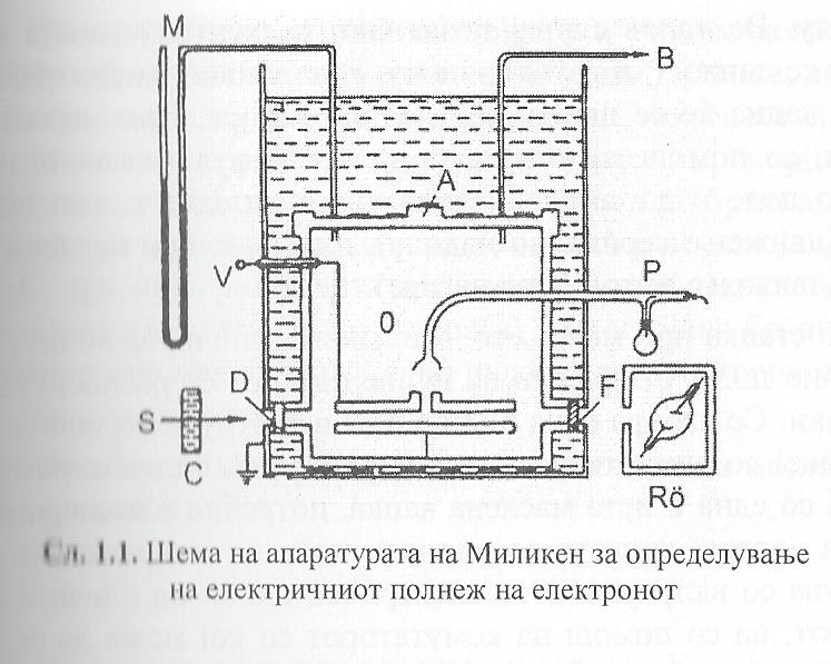 Milican experiments in atomic Physics